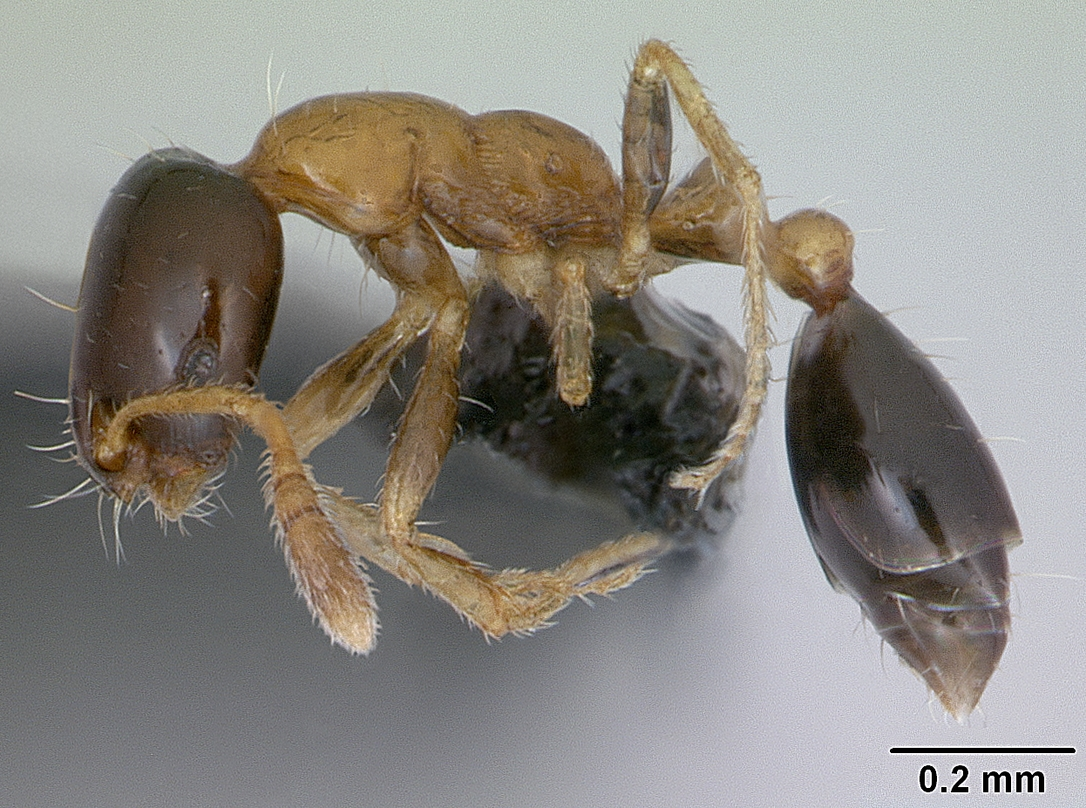 Profile view of ant Monomorium floricola specimen casent0053986.